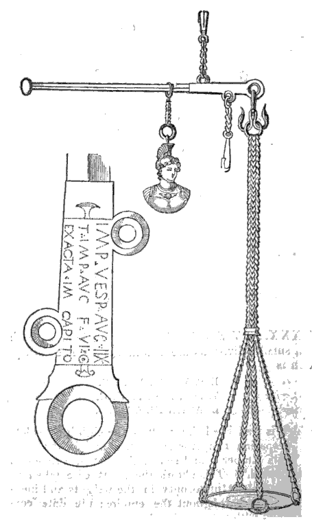 Clarke, George (1923) Pompeii, volume 1, The Library of Entertaining Knowledge, ISBN 9781146952217, page 208